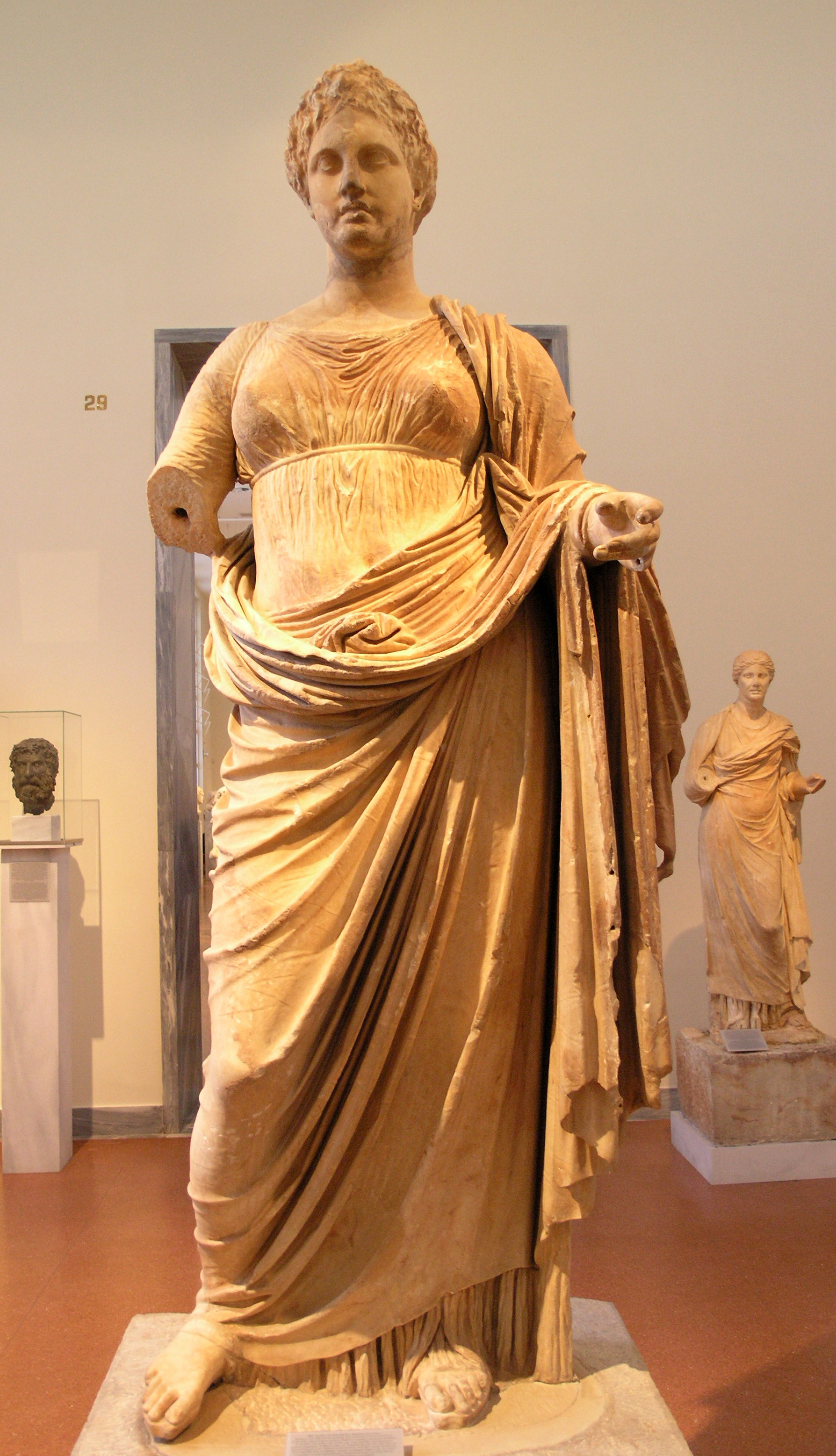 Chairestratos: Themis. Marble, c. 300 BC. Found in Rhamnonte, at the temple of Nemesis. Dedicated to Themis by Megacles. National Archaological Museum of Athens.